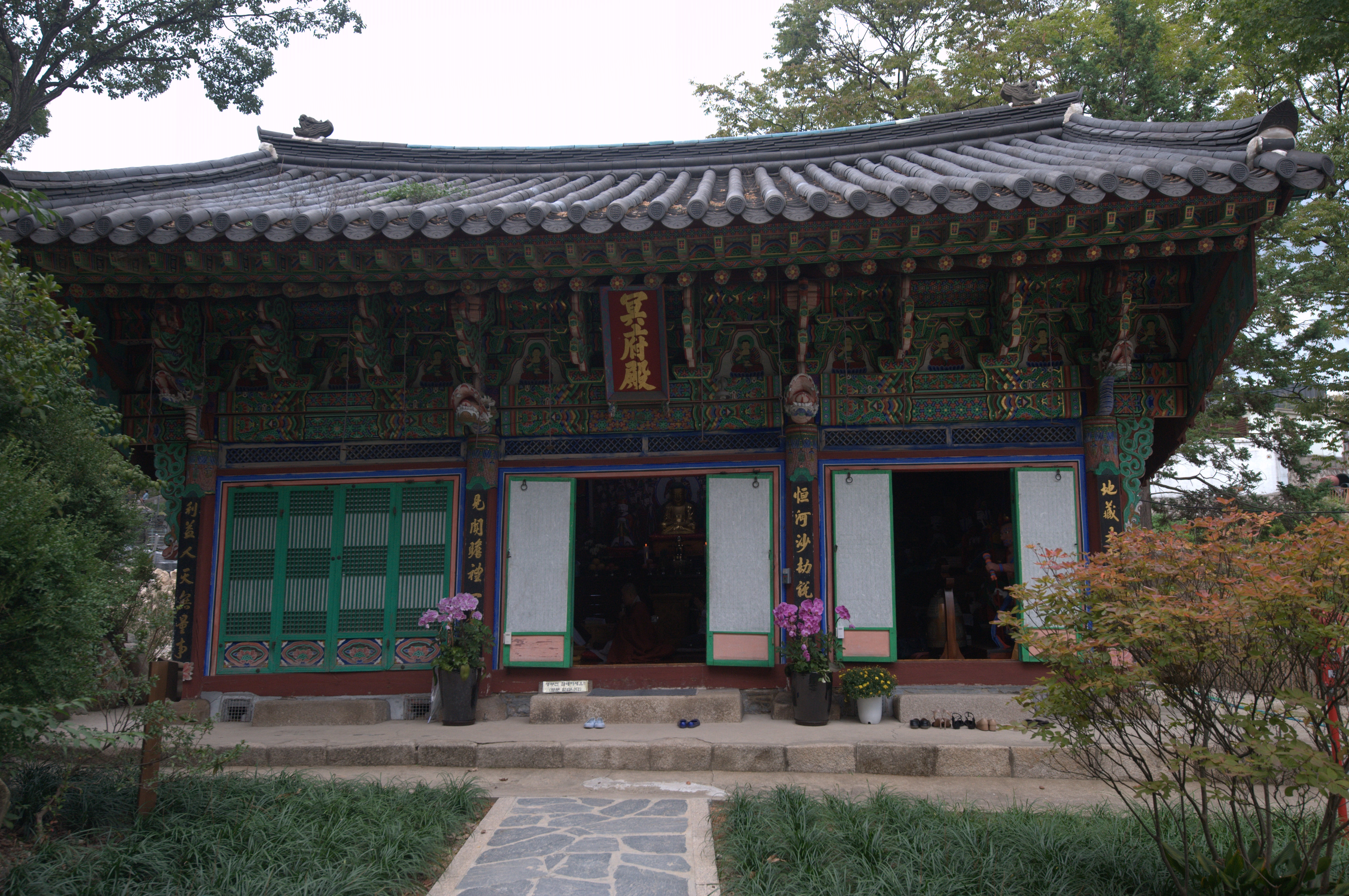 Heungchunsa, a Buddhist temple located in Donam-dong, Sungbuk-gu, Seoul, South Korea.